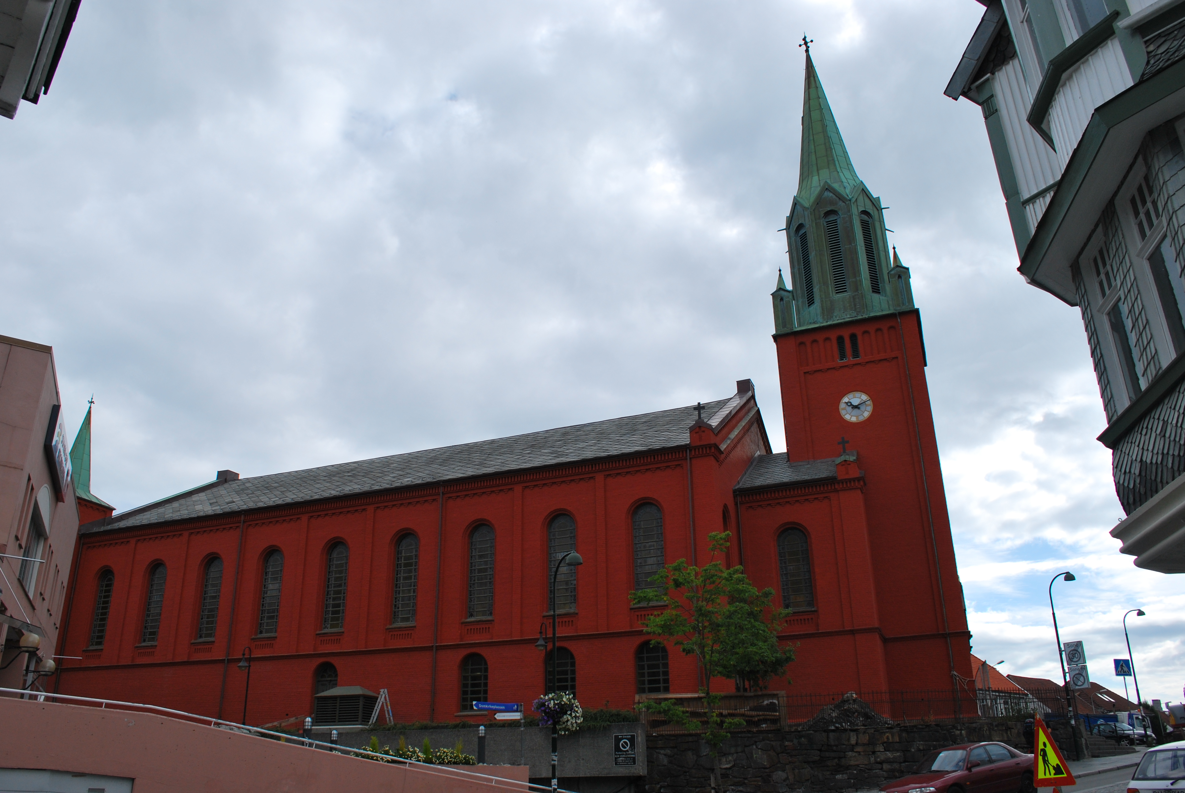 St. Petri church, west wall, Stavanger, Norway